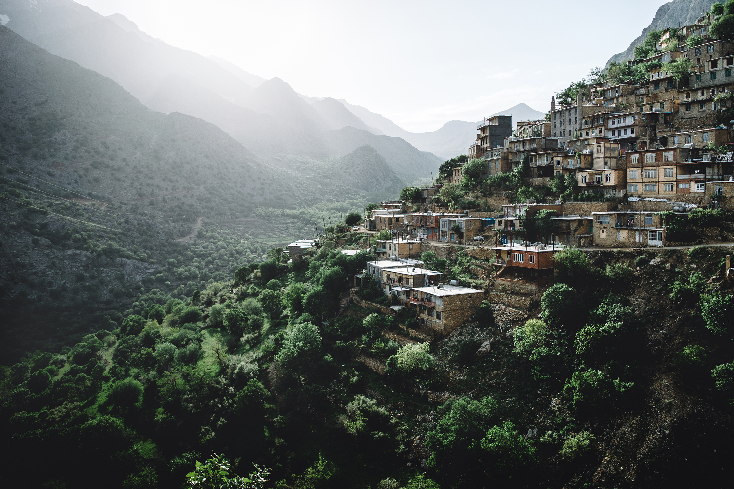 A typical Kurdish village in Sarvabad, Kurdistan Province, Iran. Uraman Takht Rural District, Shaliar village, 1.2 km south of Takht village.